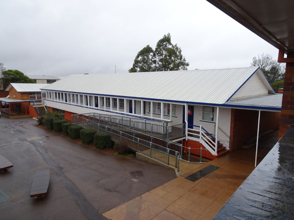 650037 Block L, west side, looking northeast